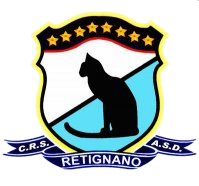 This is the stemma of the italian village of Retignano (2011)